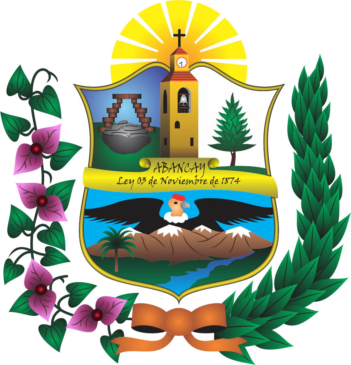 District of Abancay - Province of Abancay - Departament of Apurimac - Region Apurimac - Republic of Peru